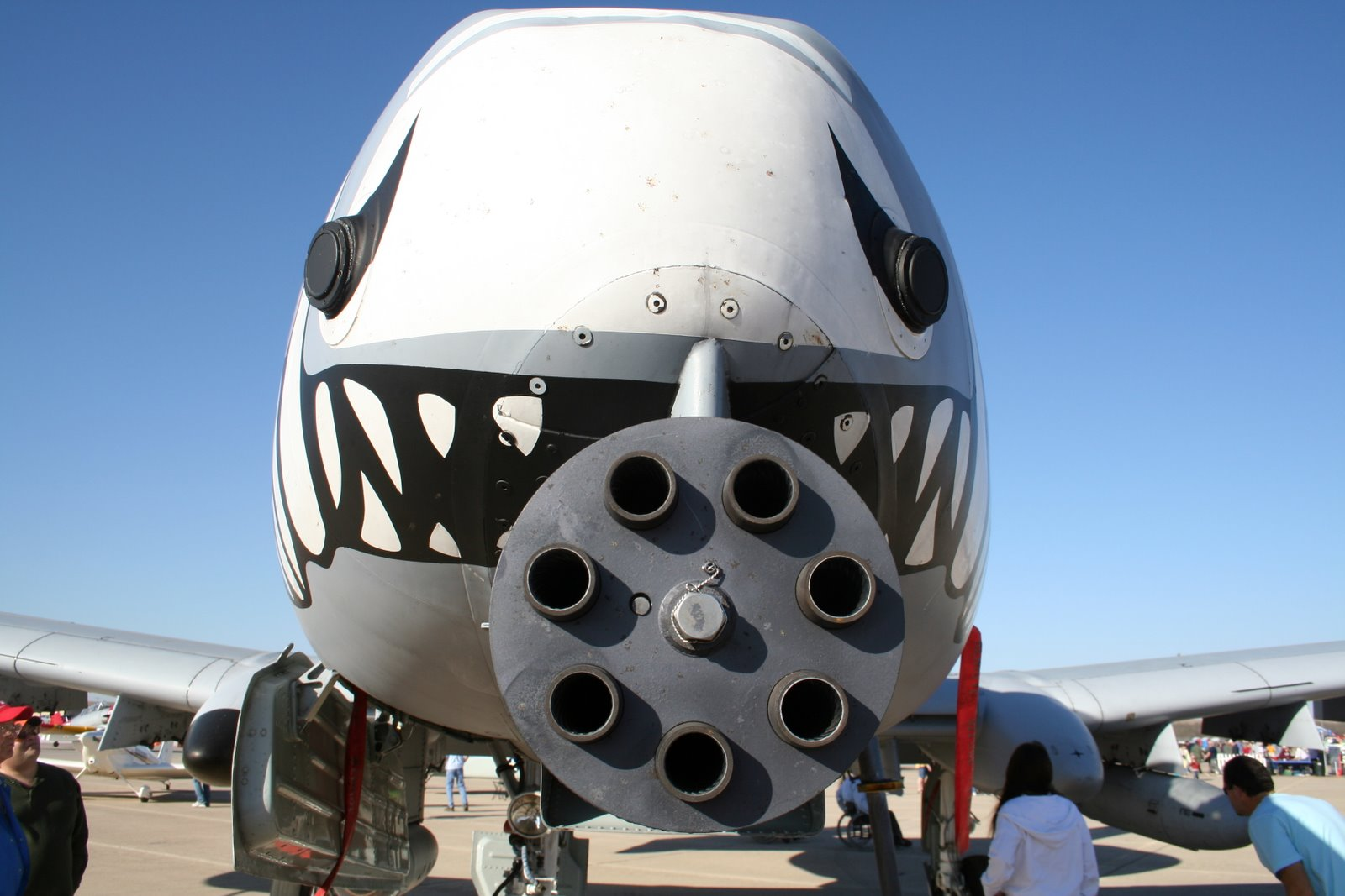 A close up picture of the Fairchild A-10 Warthog's 30mm Gatling Gun